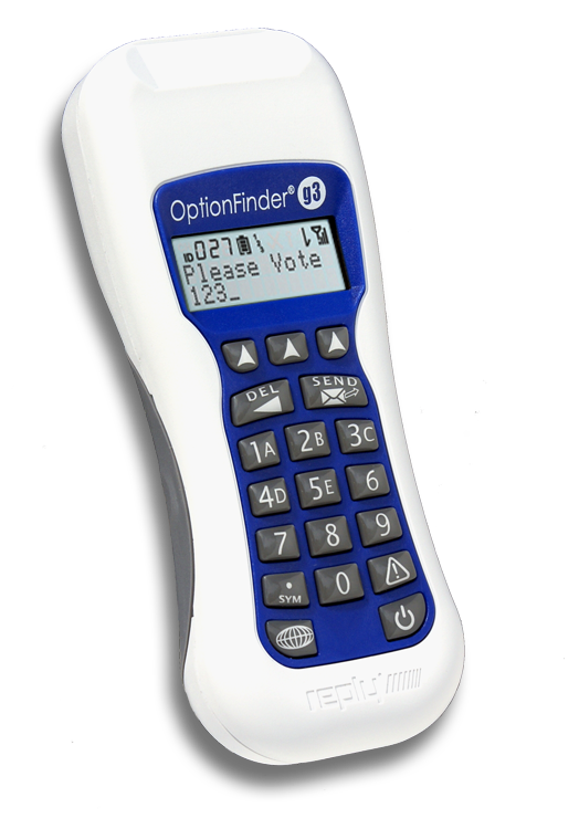 Audience response radio frequency keypad with LCD display